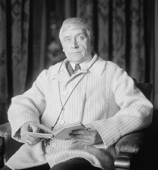 Belgian writer Maurice Maeterlinck (1862-1949)